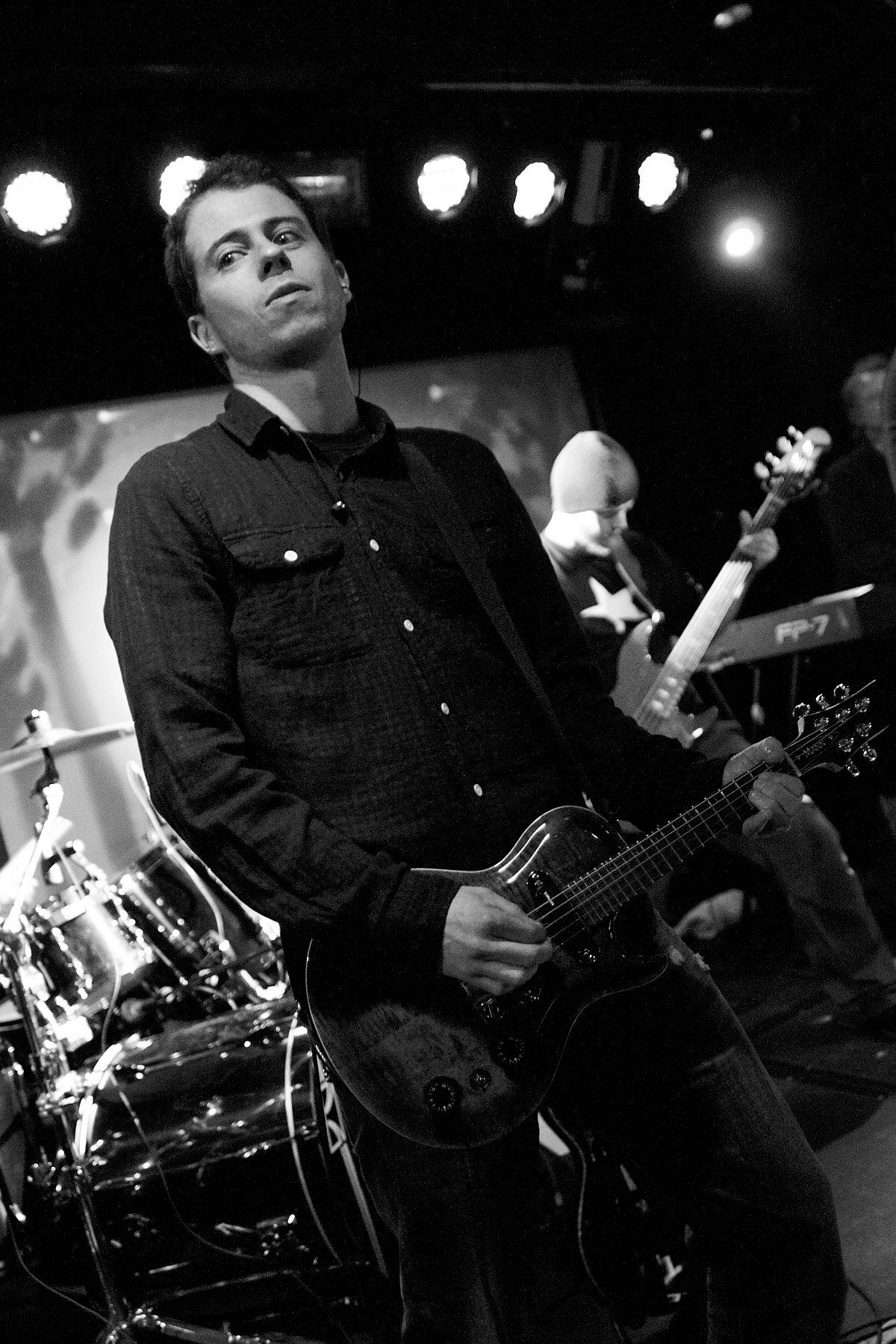 Mikael Krømer of Gazpacho